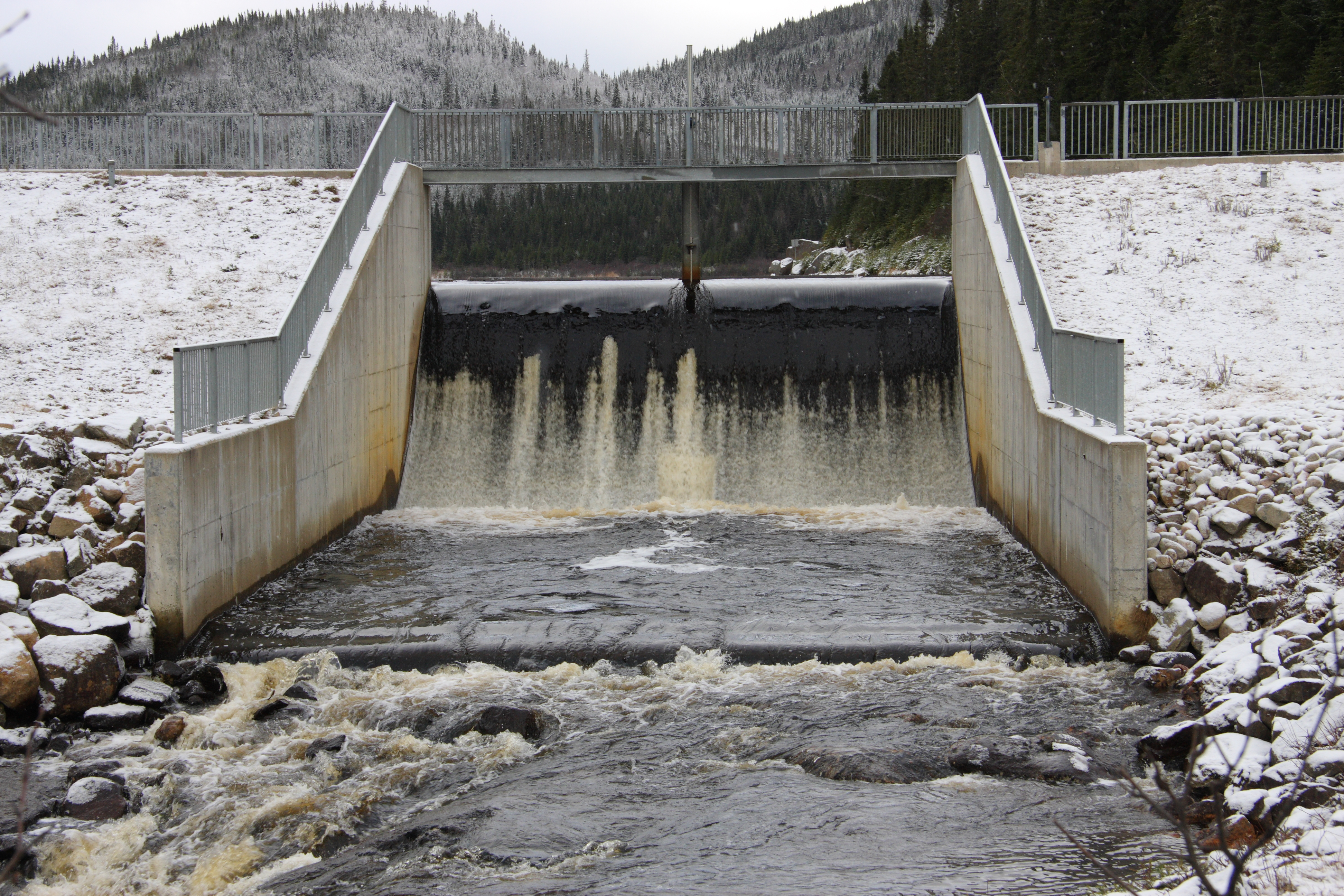 Sautauriski dam on Sautauriski Lake, Jacques-Cartier National Park, Quebec, Canada.